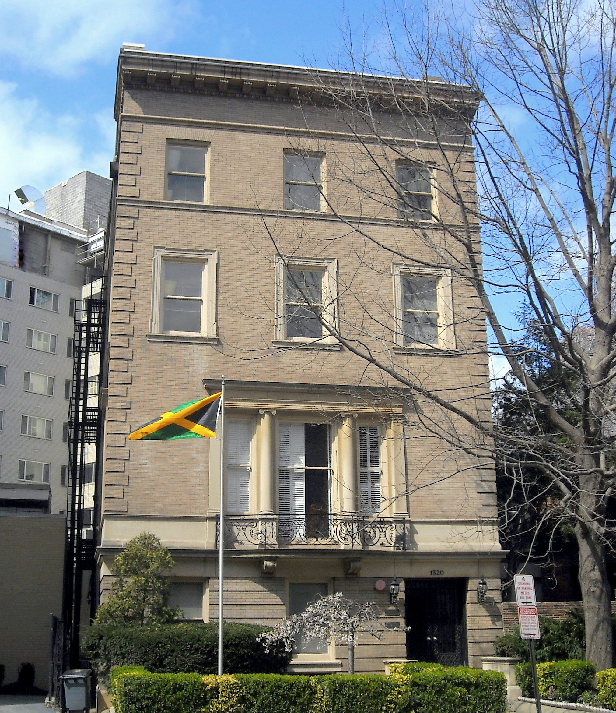 The Embassy of Jamaica located at 1520 New Hampshire Avenue, NW in the Dupont Circle neighborhood of Washington Constructed in 1903, the Beaux-Arts building is a contributing property to the Dupont Circle Historic District and valued at $4,422,000. Past owners include Beekman Winthrop, George P. McLean, author Thomas Bell Sweeney, the Institute for Policy Studies, and the Children's Defense Fund.